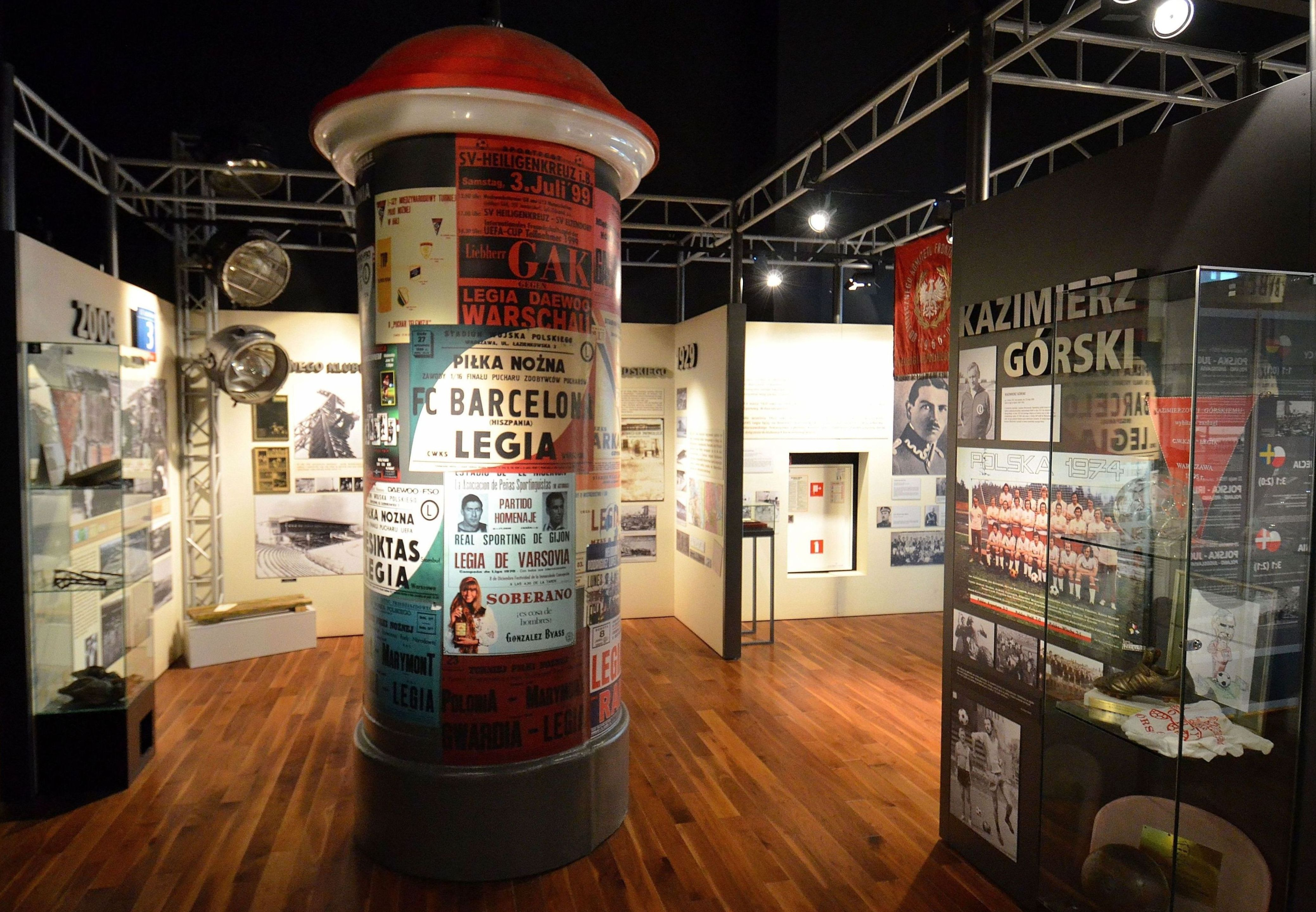 Legia Warszawa Museum